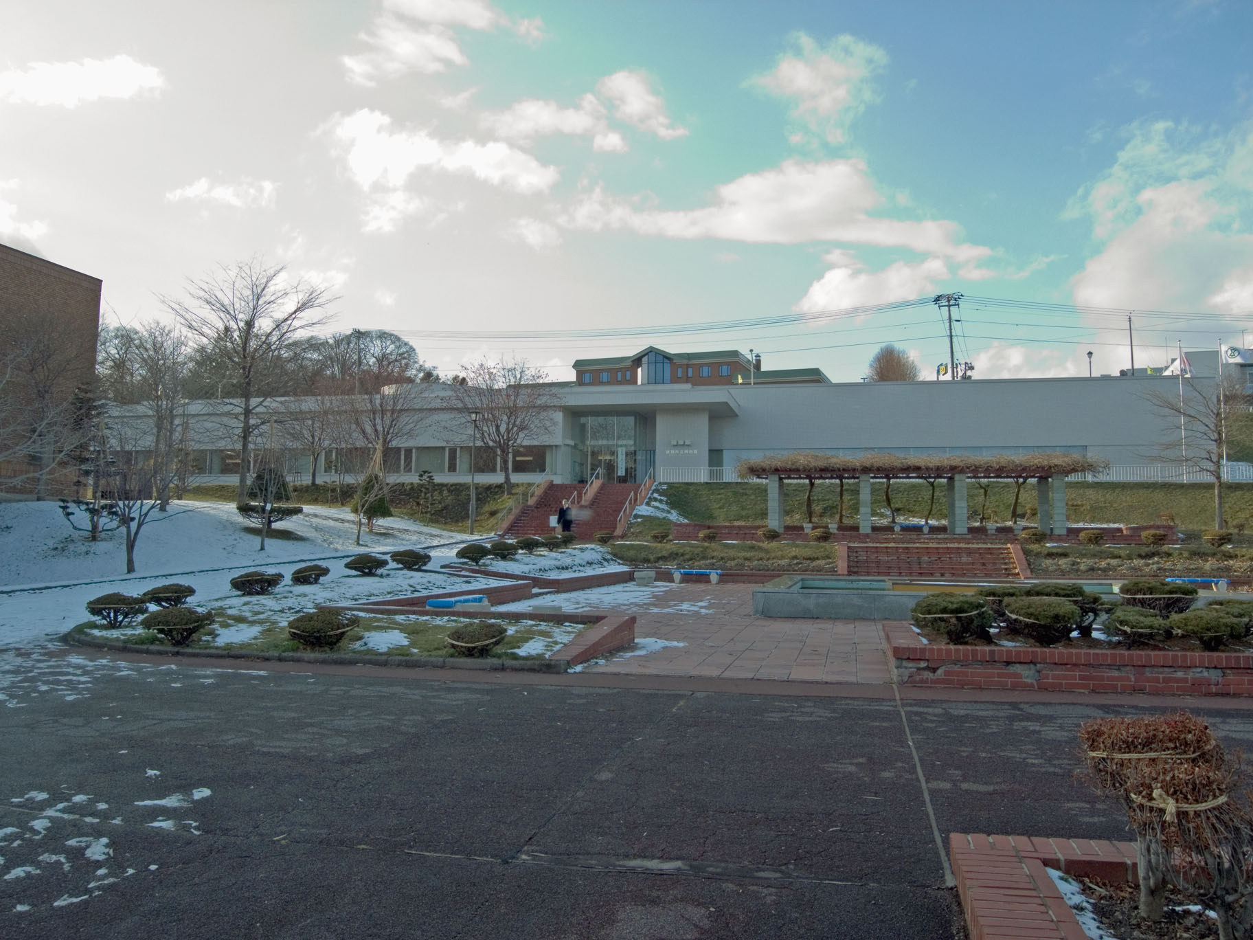 Mombetsu city museum, Mombetsu, Hokkaido, Japan